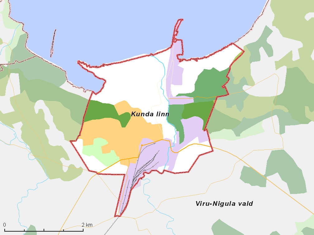 Map of municipality in Estonia